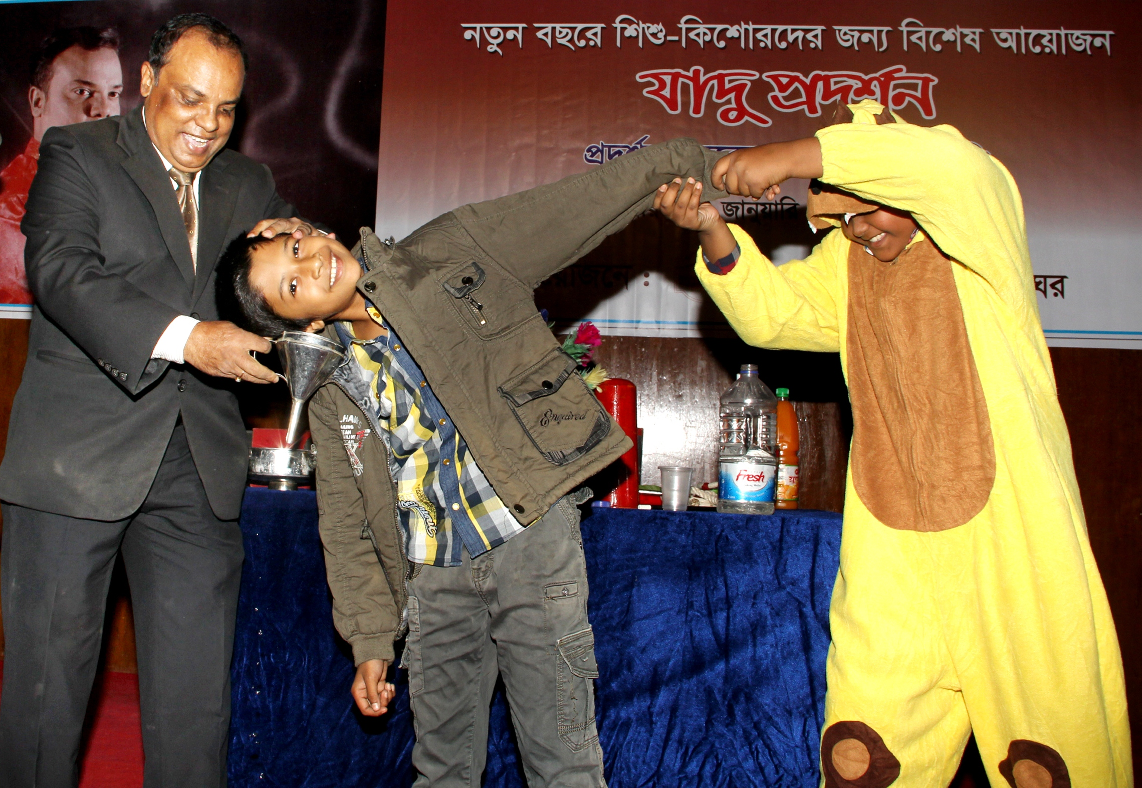 Photograph of a magician showing magic in a public place (Bangladesh National Museum, Dhaka, Bangladesh)